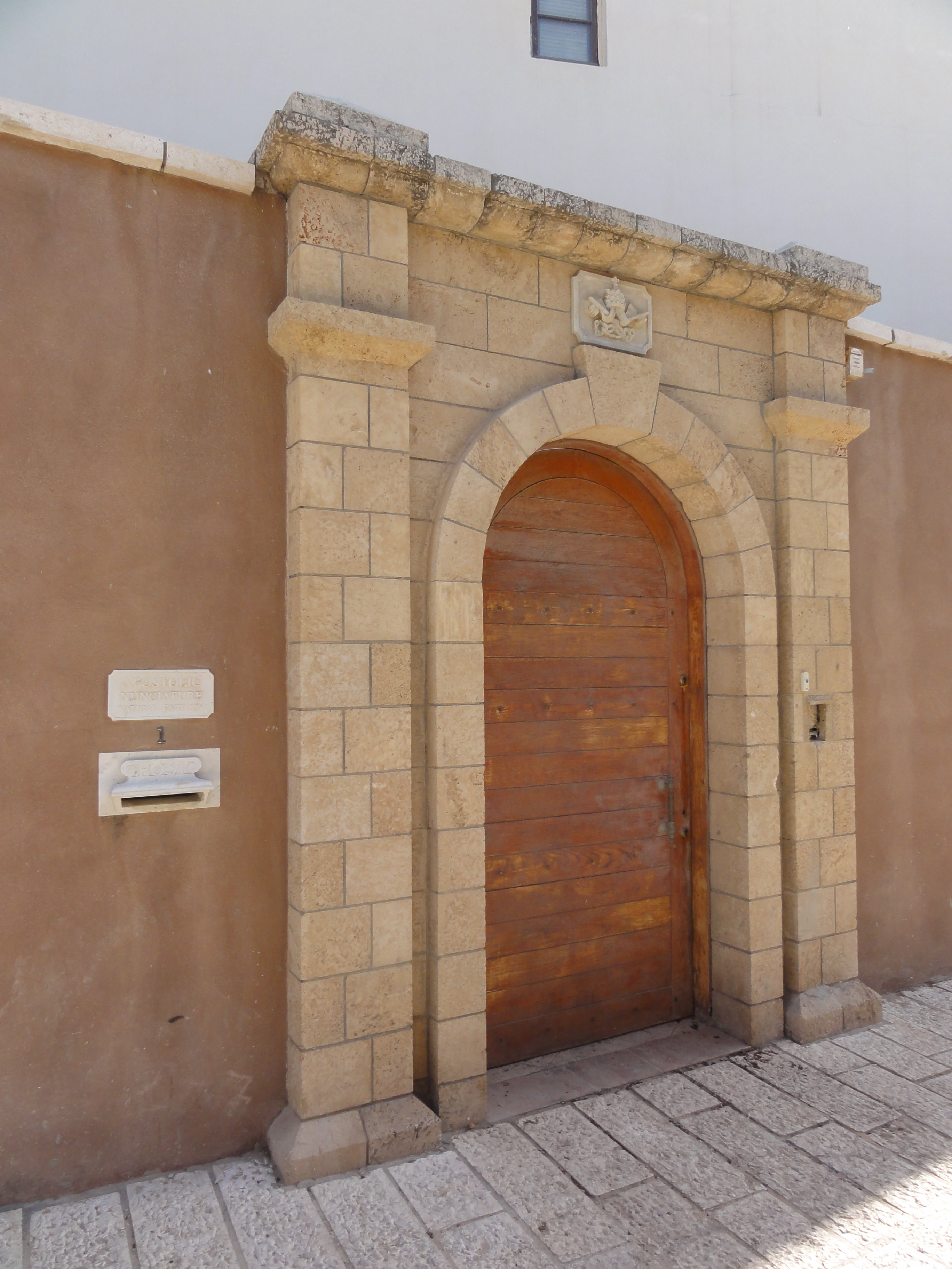 Apostolic nunciature to Israel in Tel Aviv-Jaffa. Old City of Jaffa, 1 Netiv HaMazalot